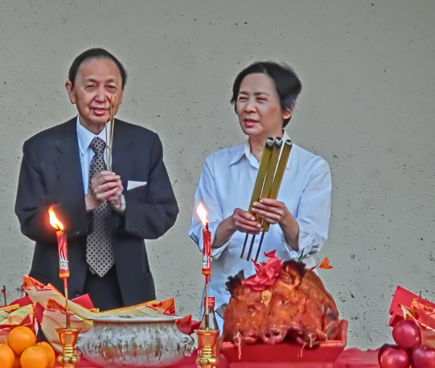 Hong Kong Coliseum, Hung Hom, Hong Kong.